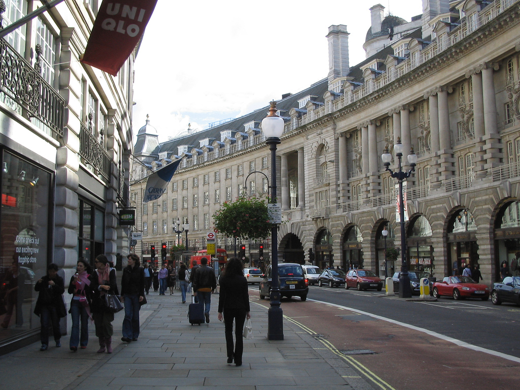 Its always nice - Uniqlo Regent Street, London